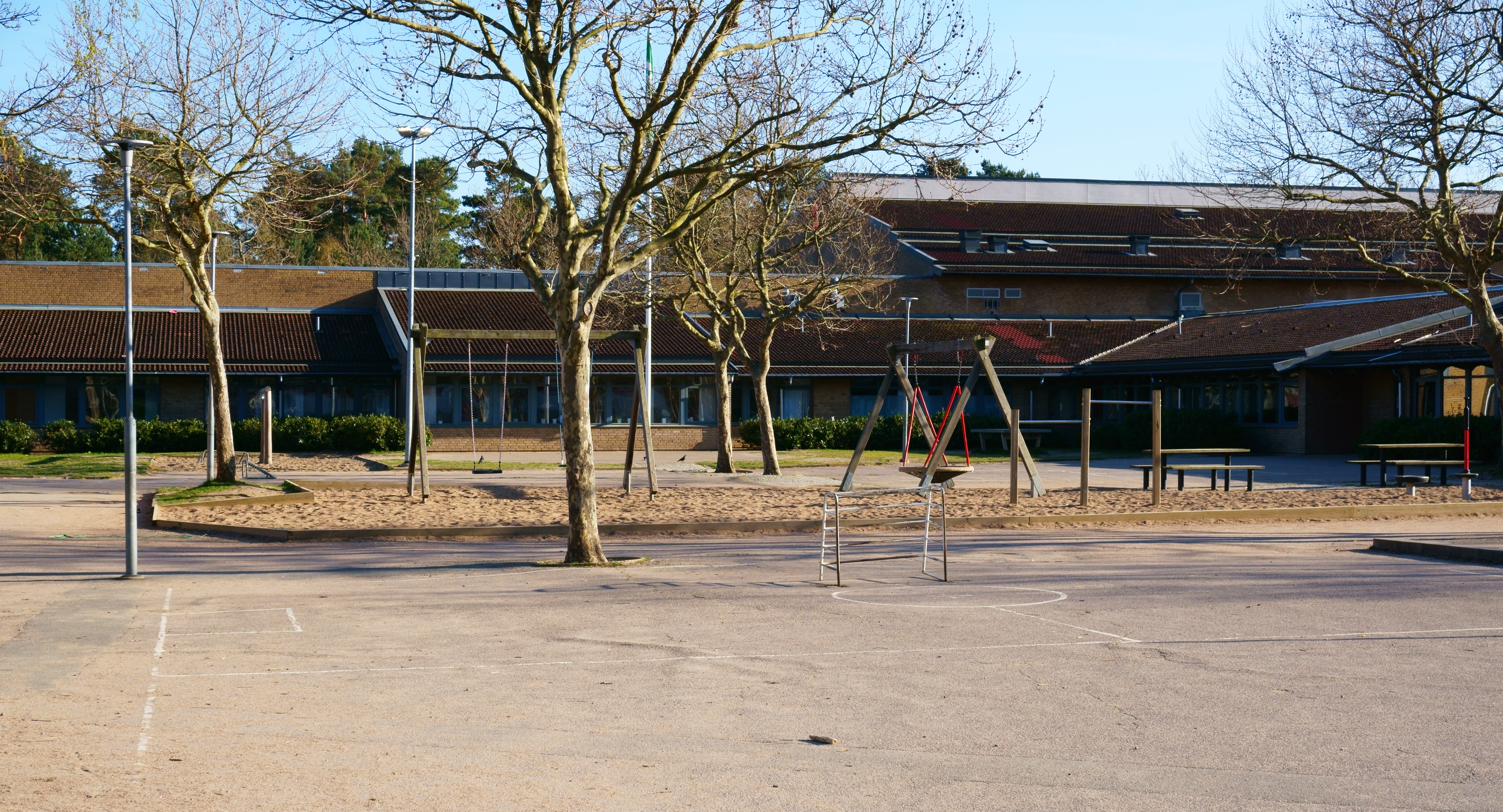 Schoolyard of Skönadalsskolan in Hofterup, Scania, Sweden.